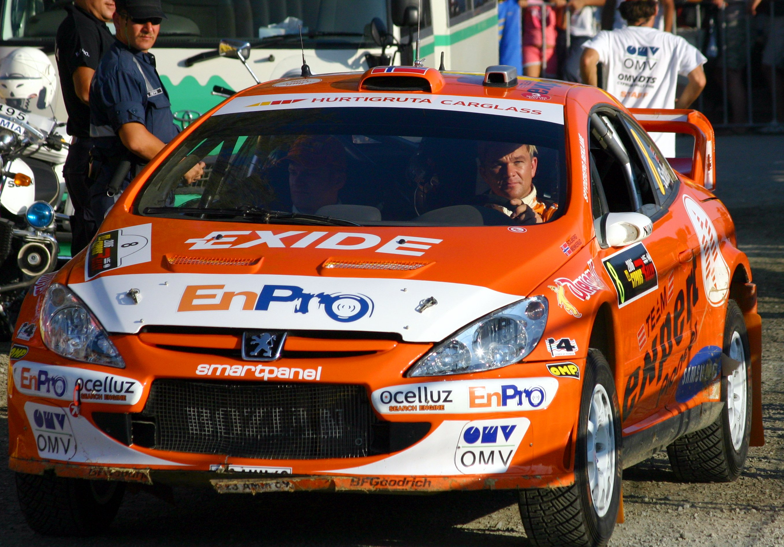 Henning Solberg at the closing ceremony of the 2006 Cyprus Rally.